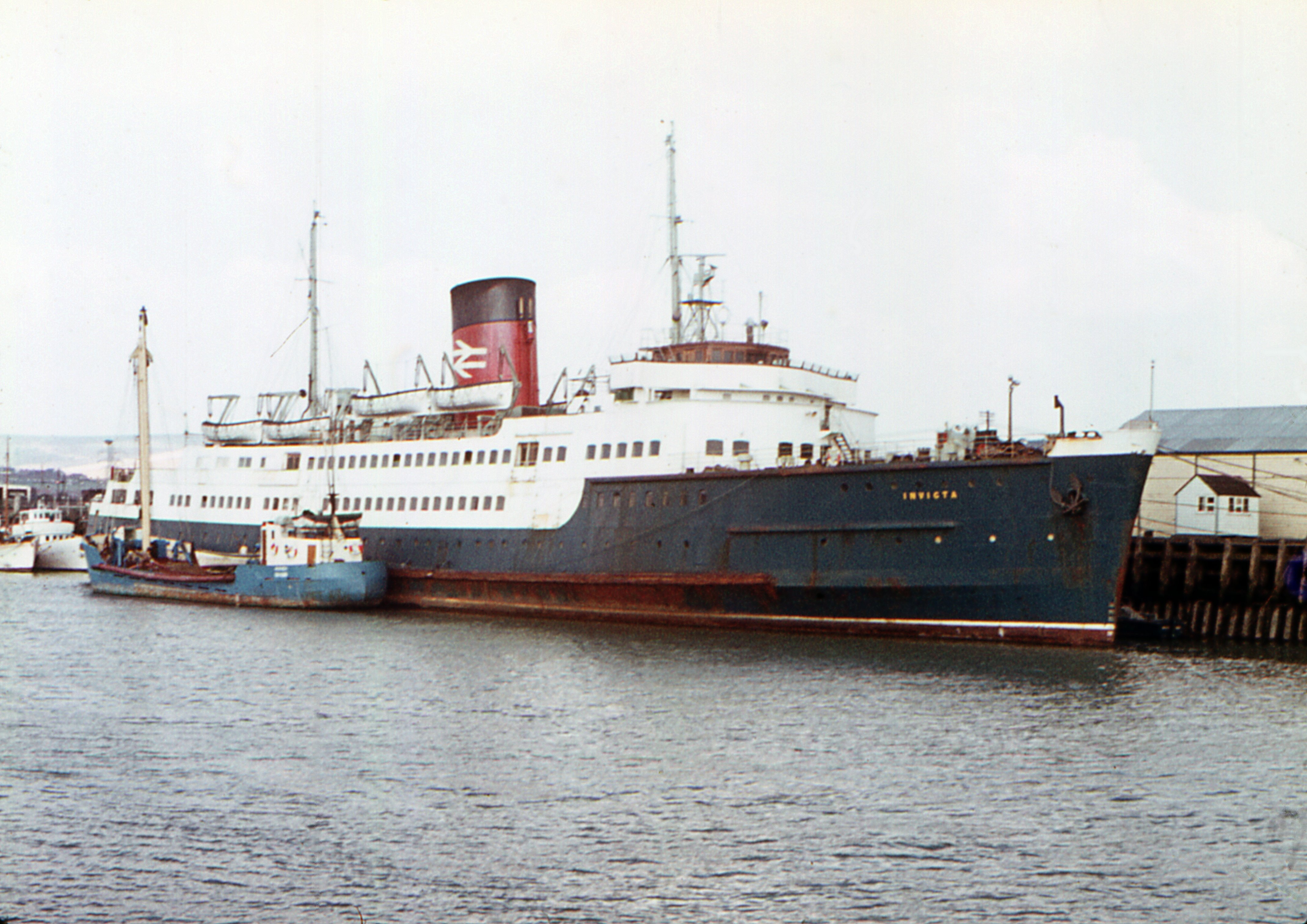 The early 1970s and The dear old Sealink Ferry "INVICTA" is coming to the end of her life. Captured here at Newhaven shortly before decommissioning and scrapping. "SS INVICTA" was a train ferry built in 1939 for the Southern Railway. Requisitioned on completion in 1940 by the Admiralty. Converted to a Landing Ship, Infantry and renamed HMS Invicta. To Southern Railway in 1945 and acquired by British Railways in 1948. Served until 1972 when scrapped at Brugge, Belgium. Name: Invicta Owner: Admiralty (1939-42) Royal Navy (1942-45) Southern Railway (1945-47) British Transport Commission (1948-62) British Railways Board (1963-72) Operator: Admiralty (1939-42) Royal Navy (1942-45) Southern Railway (1945-47) British Railways (1948-68) British Rail (1968-72) Port of registry: London (1940-42) London (1942-45) London (1945-72) Route: Dover - Calais (1945-72) Ordered: 13 February 1939 Builder: William Denny & Bros Ltd Yard number: 1344 Launched: 14 December 1939 Completed: June 1940 Commissioned: 3 June 1942 Decommissioned: 9 October 1945 Maiden voyage: 27 June 1940 In service: 1 July 1940 Out of service: 8 August 1972 Identification: Code Letters GLJG (1939-43) Code Letters GLJQ (1943-72) United Kingdom Official Number 167606 Fate: Scrapped. General characteristics Class & type: Passenger ship Tonnage: 4,220 GRT 1,982 DWT Length: 336 ft 5 in (102.54 m) Beam: 50 ft 1 in (15.27 m) Draught: 12 ft 9 in (3.89 m) Depth: 24 ft 5 in (7.44 m) Installed power: 4 steam turbines Propulsion: Twin screw propellors Speed: 22 knots (41 km/h) Capacity: 1,304 passengers Camera: Olympus Pen F Half Frame SLR. Film: Agfacolour.